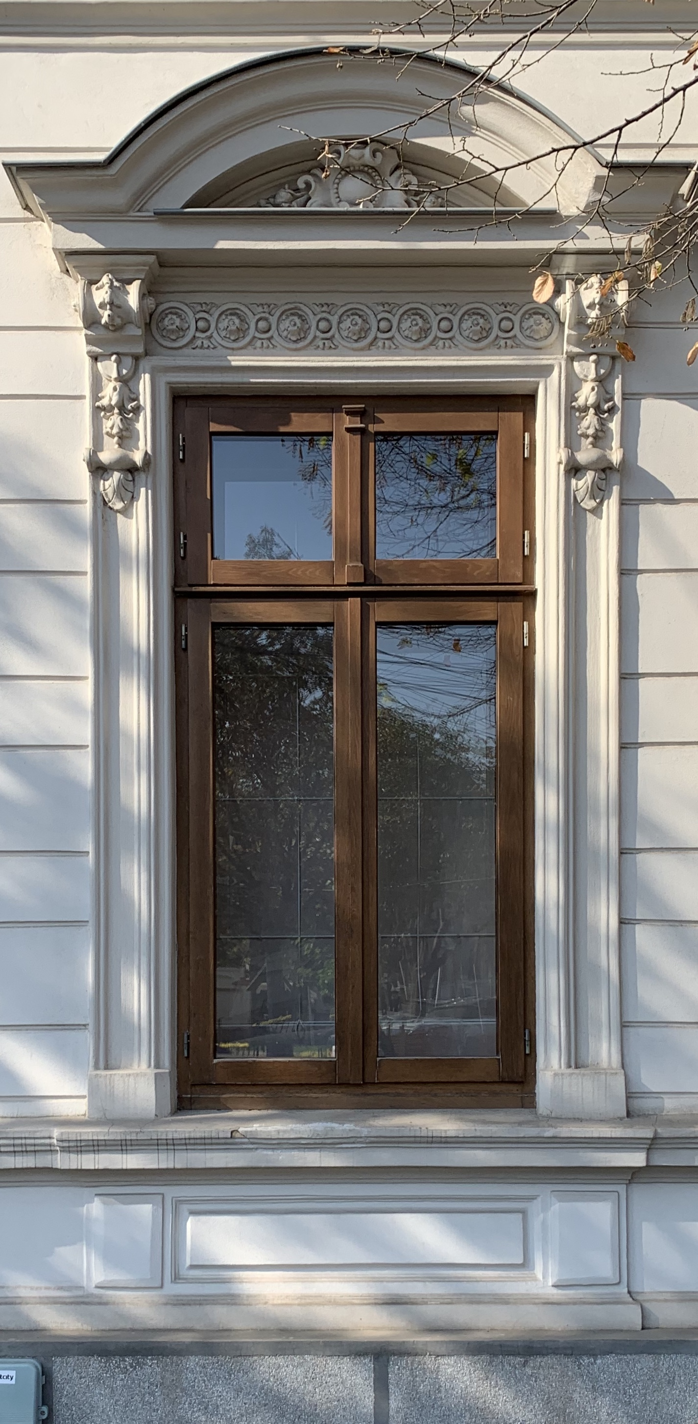 Window of the house with number 17 on strada Mântuleasa, from Bucharest (Romania)